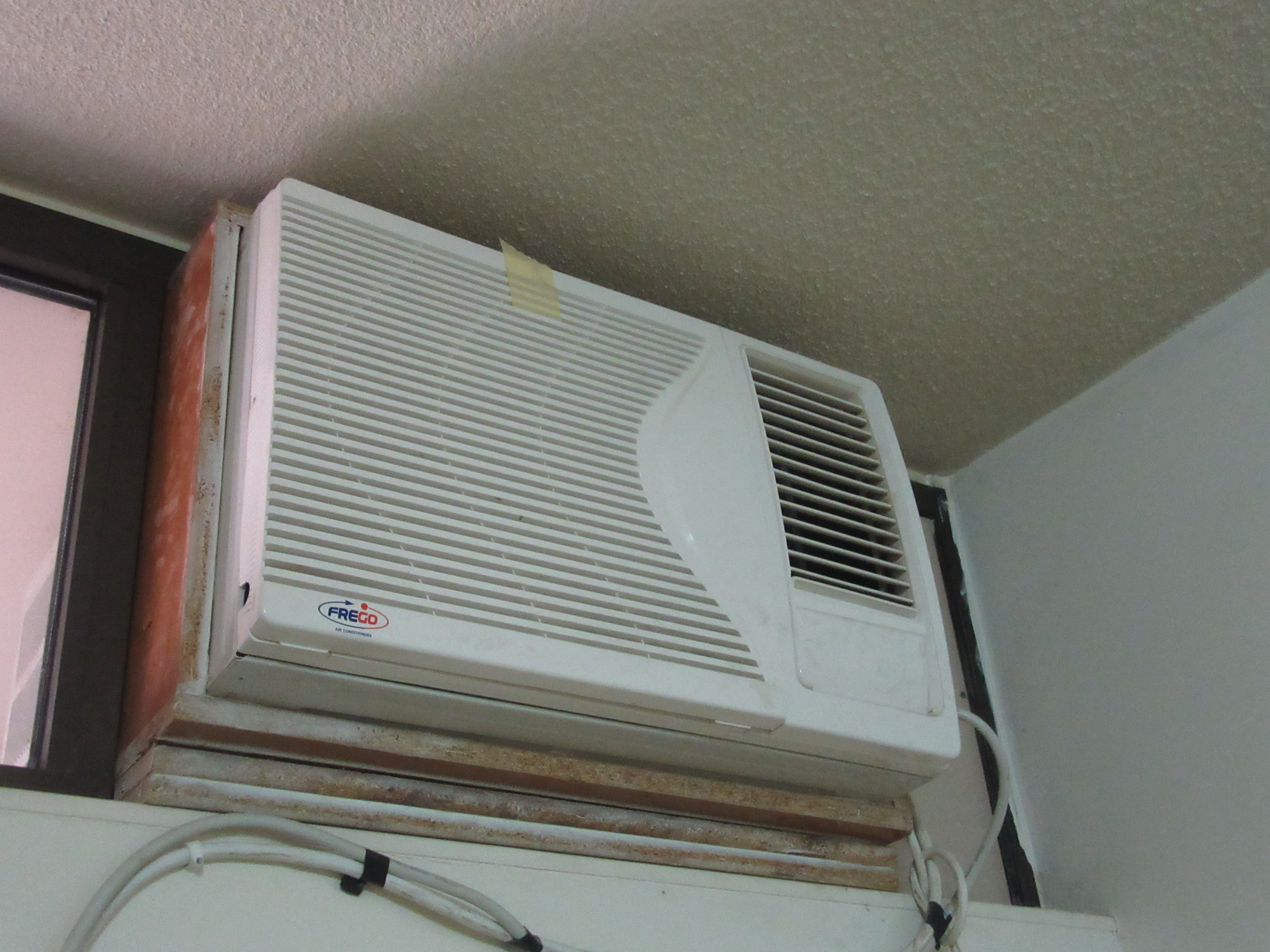 A white wall mount air conditioner